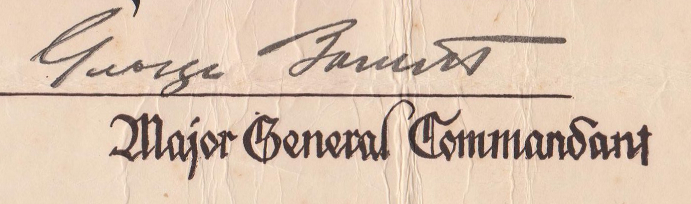 Signature of George Barnett, Major General Commandant of the United States Marine Corps